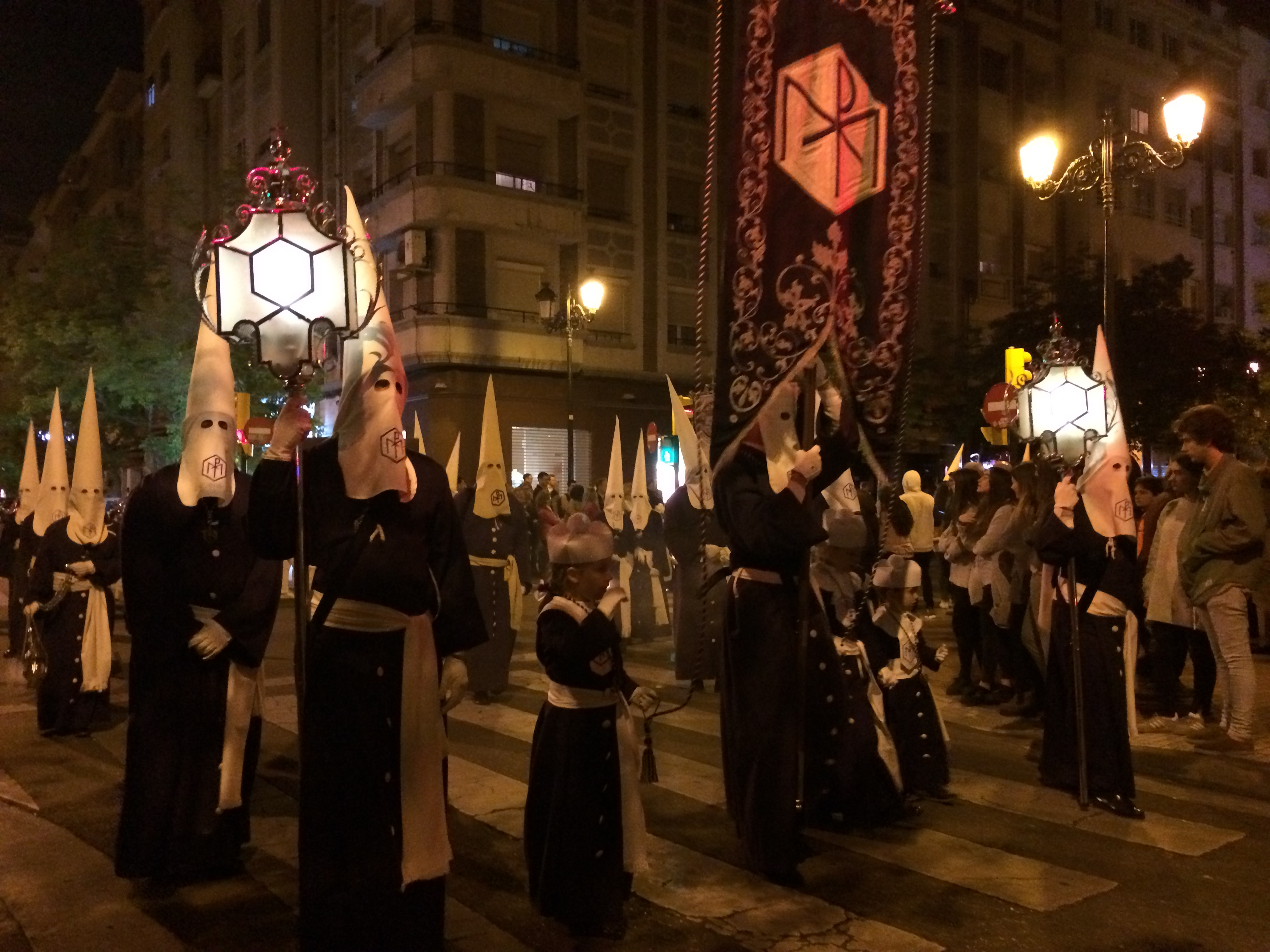 Holly Week procession in 2017 in Zaragoza (Spain)